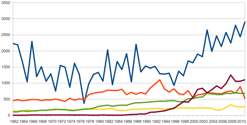 Historic output (1962-2011) of the current top 5 producers of green coffee 2011. Source: FAOSTAT. X-axis: year; Y-axis: tonnes (thousand) Brazil Vietnam Indonesia Colombia Ethiopia